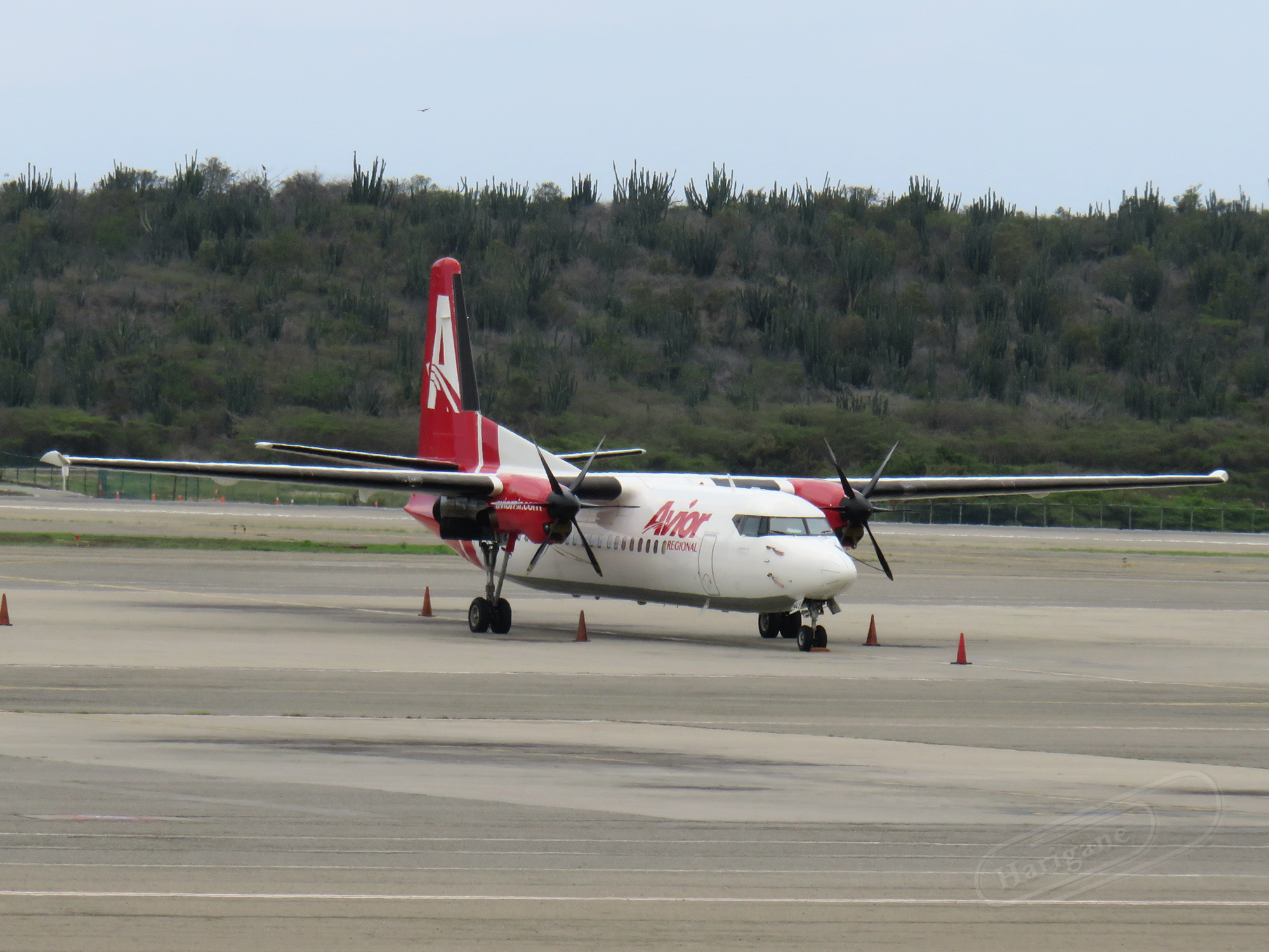 Avior Regional Fokker 50 registered YV2948 at Simón Bolívar International Airport, Caracas, Venezuela.